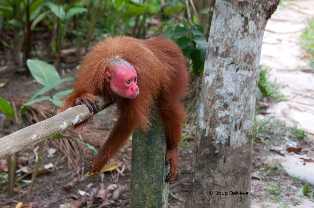 Red bald uakari (Cacajao calvus ucayalii) in Peru.